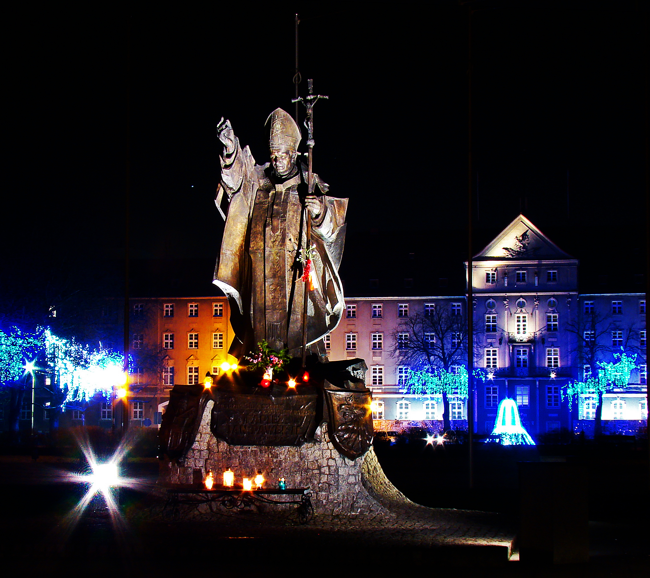 Ioannes Paulus II monument (illumination), Szczecin, Poland